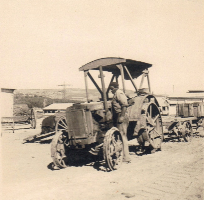 The first tractor Kibbutz Sarid willing to work in the field.